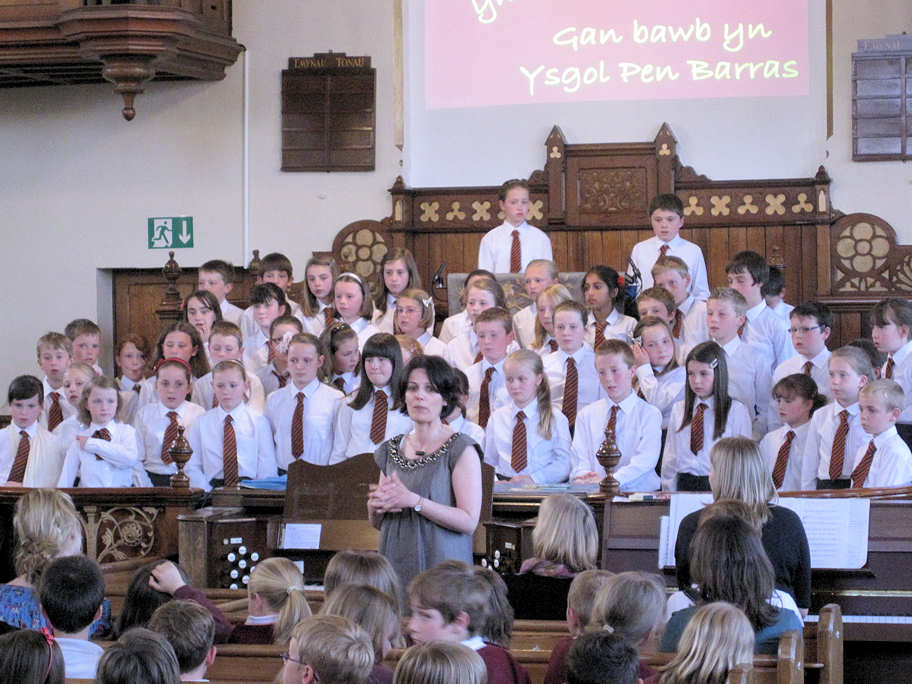 Cor Ysgol Pen Barras Choir. Winner of 'Songs of Praise Junior Chopir of the Year 2011' competition.